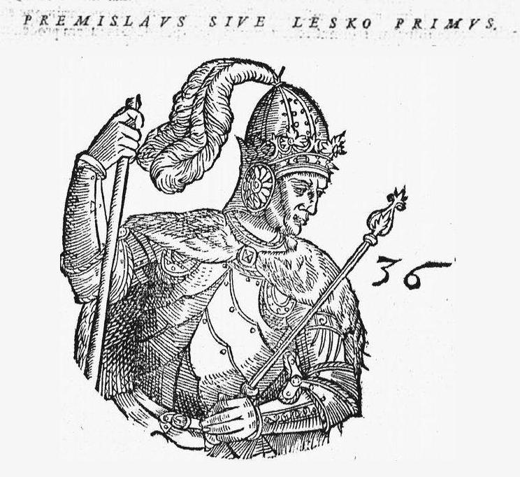 A picture of Lestek I, legendary king of Poland.